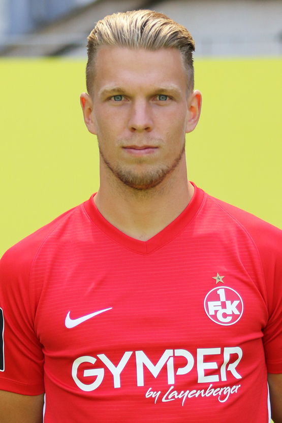 Janek Sternberg (Nr. 3)